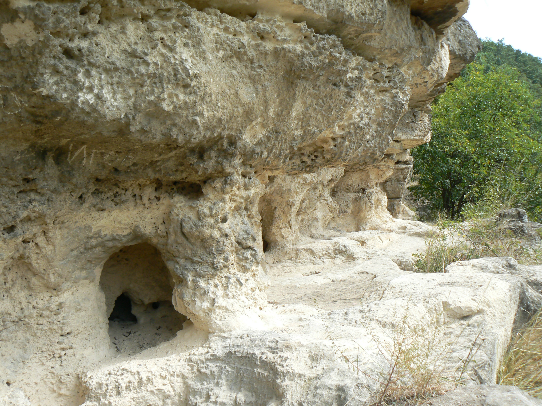 Albotin cave monastery in Vidin District, Bulgaria